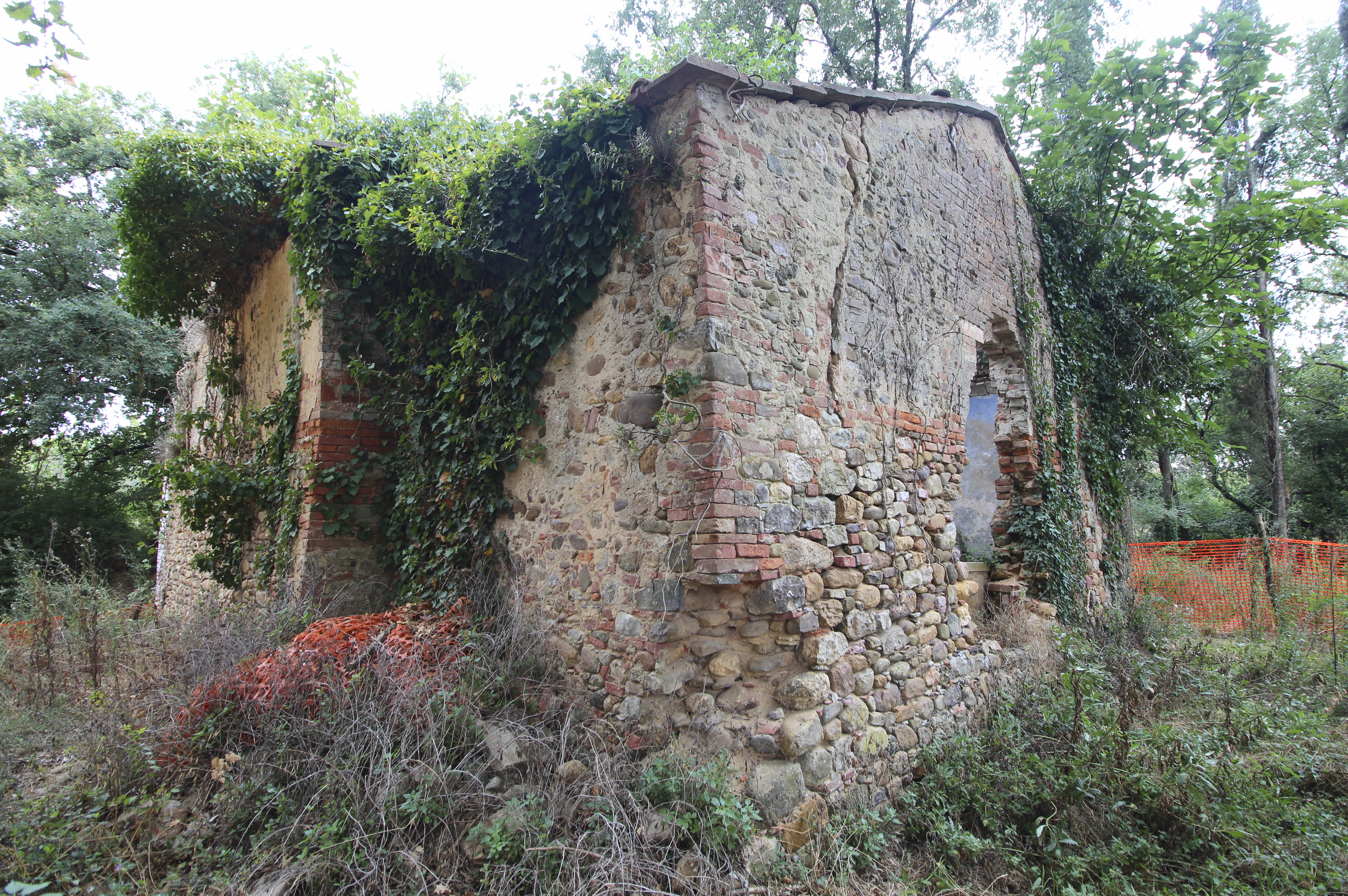 Church ruin Madonna delle Febbri (before: Santa Maria delle Grazie), Paganico, Province of Grosseto, Tuscany, Italy